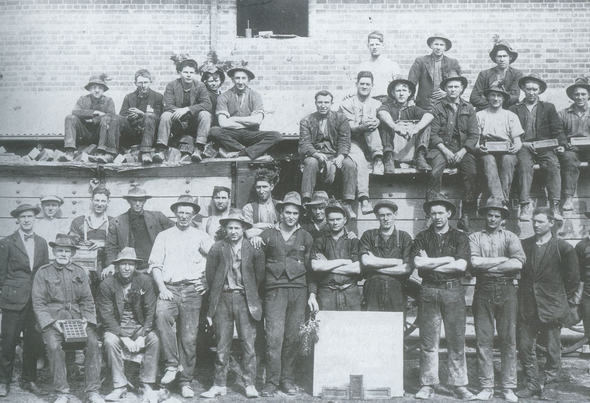 photo of labourers and brickies at the Yarralumla brickworks, photo taken in 1924 so public domain, scanned from pictorial history of Canberra.